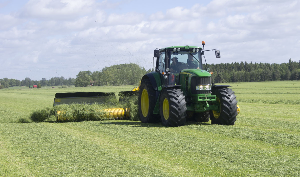 Harvesting of forage in organic farming.